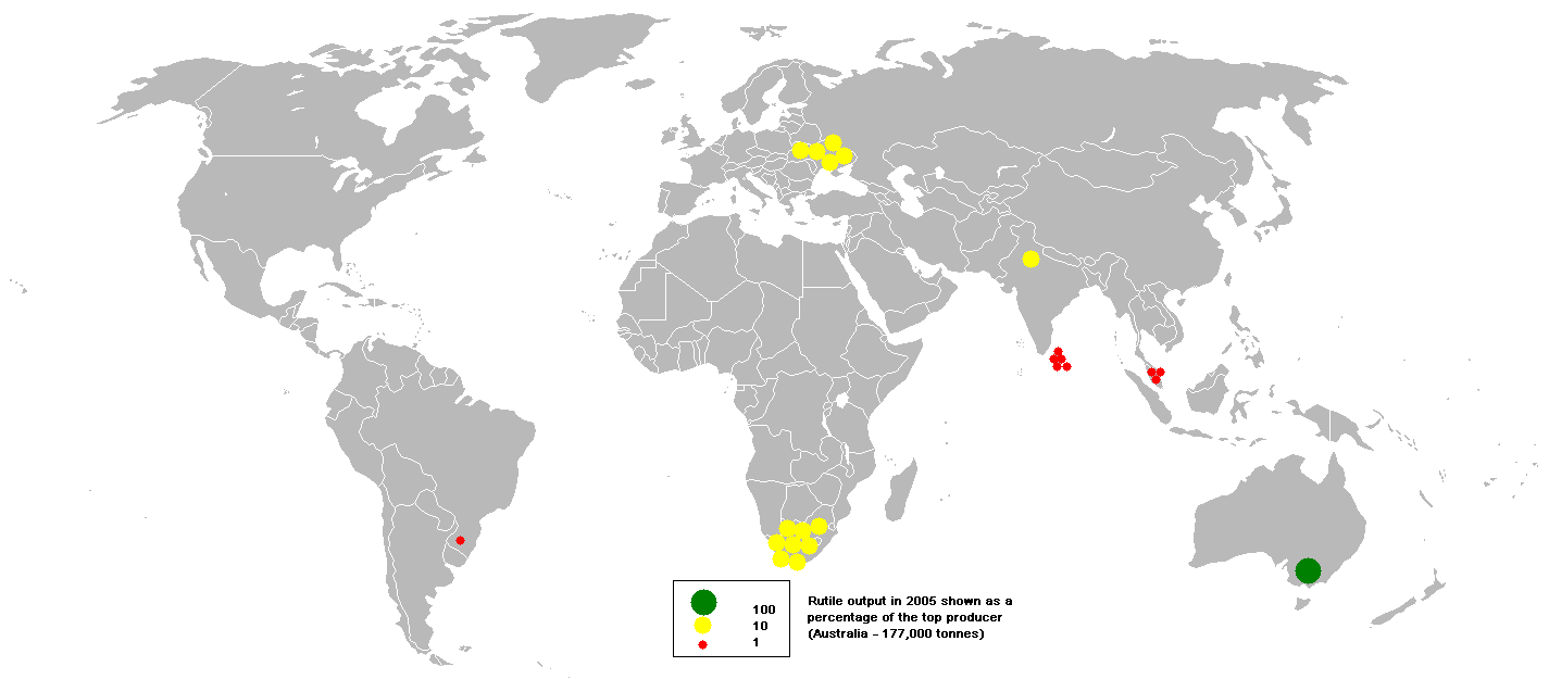 This bubble map shows the global distribution of rutile output in 2005 as a percentage of the top producer (Australia - 177,000 tonnes). This map is consistent with incomplete set of data too as long as the top producer is known. It resolves the accessibility issues faced by colour-coded maps that may not be properly rendered in old computer screens. Data was extracted on 16th June 2007. Source - Based on :Image:BlankMap-World.png